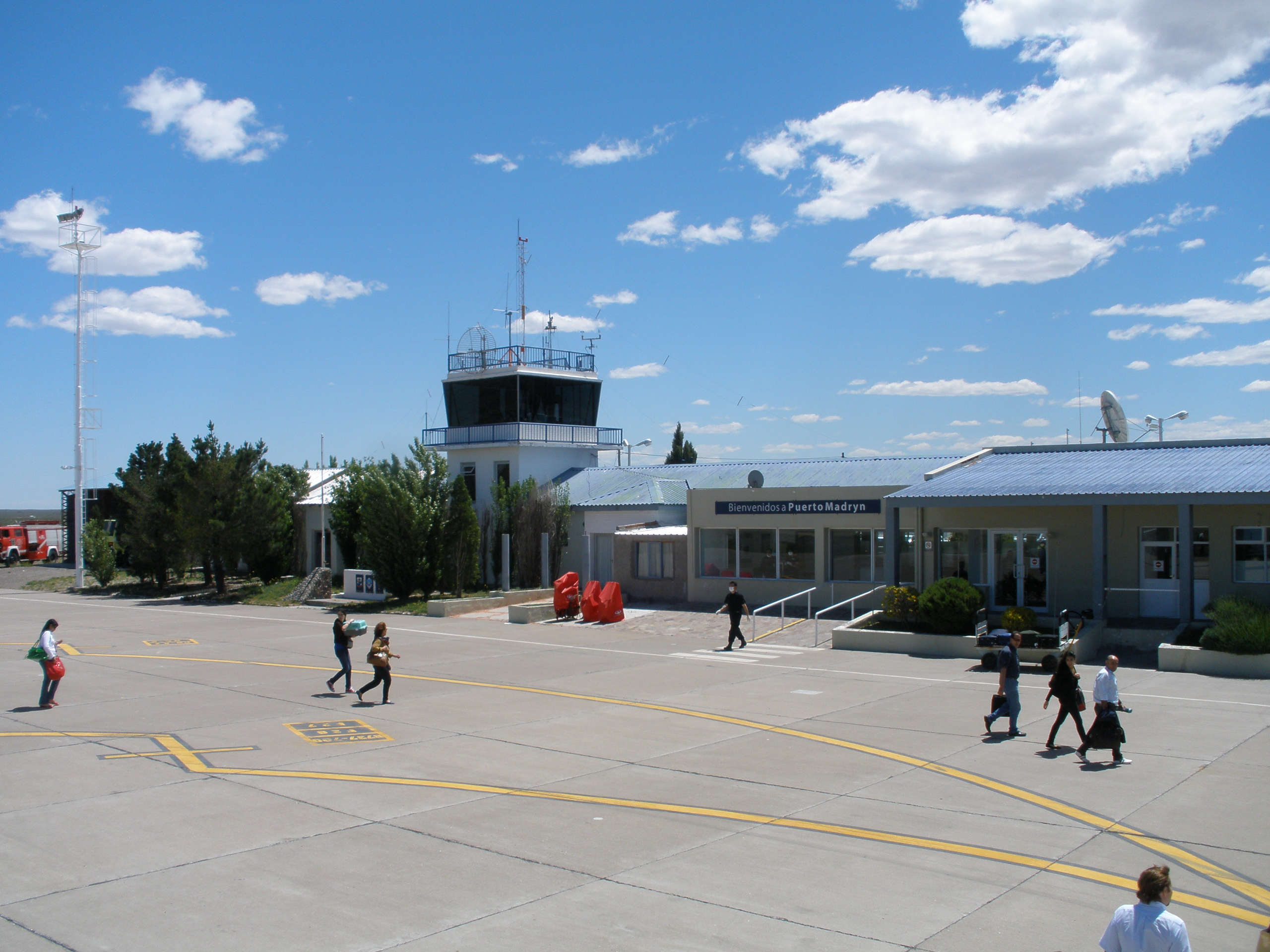 View of the airport building and control tower of El Tehuelche airport in Puerto Madryn (Argentina).